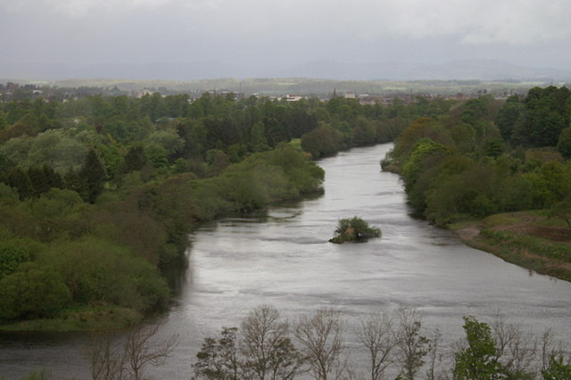 River Tay at Friarton